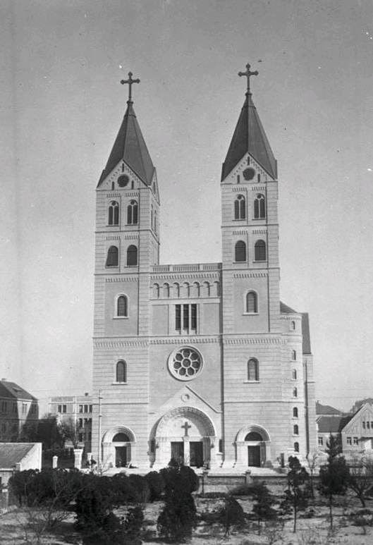 Factual corrections and alternative descriptions are encouraged separately from the original description. Additionally errors can be reported at this page to inform the Bundesarchiv. Original historic description: Tsingtau, St. Michaels-Kirche China, Tsingtau (Qingdao) Katholische St. Michaels-Kirche (Catholic St. Michael's Church)